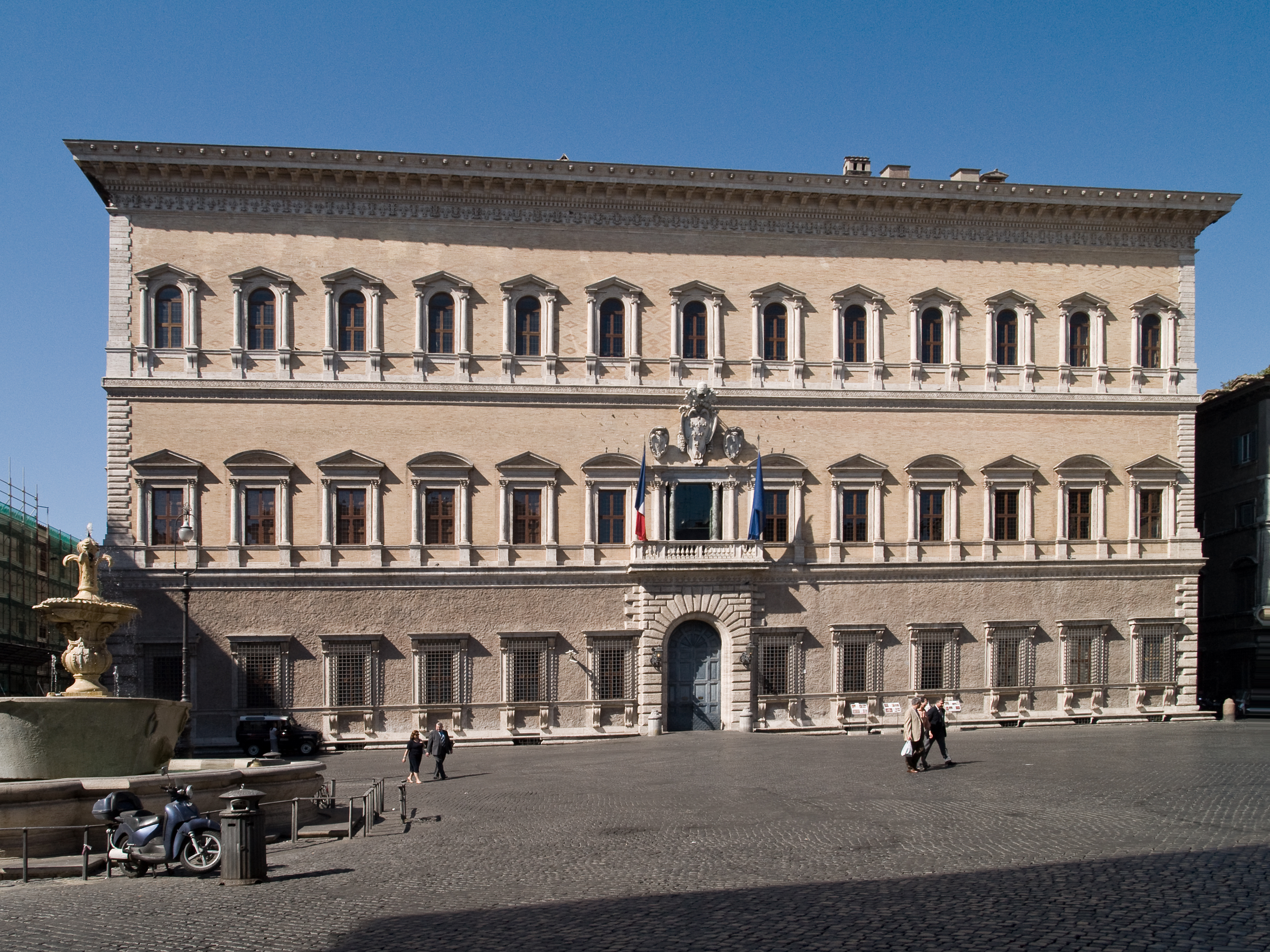 Palazzo Farnese in Rome (16th century). Since 1874 it has been the French Embassy in Italy.